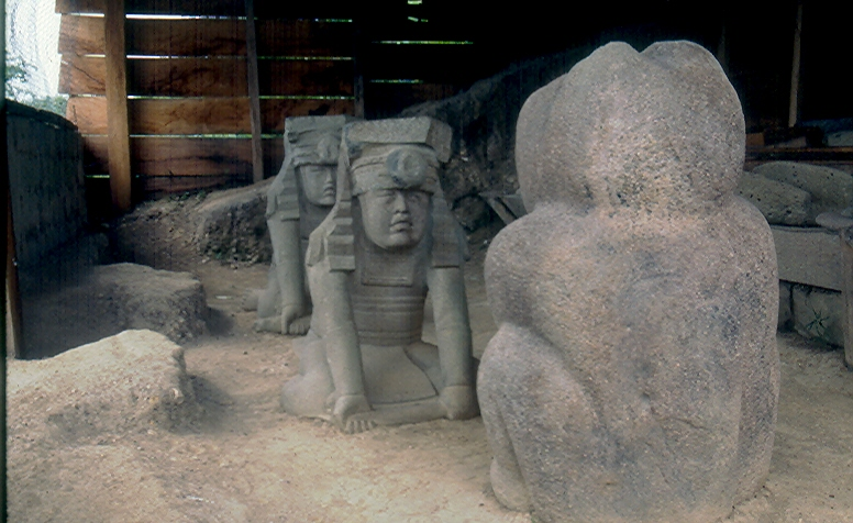 Three of the sculptures at El Azuzul shown in situ, as they were discovered. Researchers believe that these sculptures had not been moved since Olmec times.